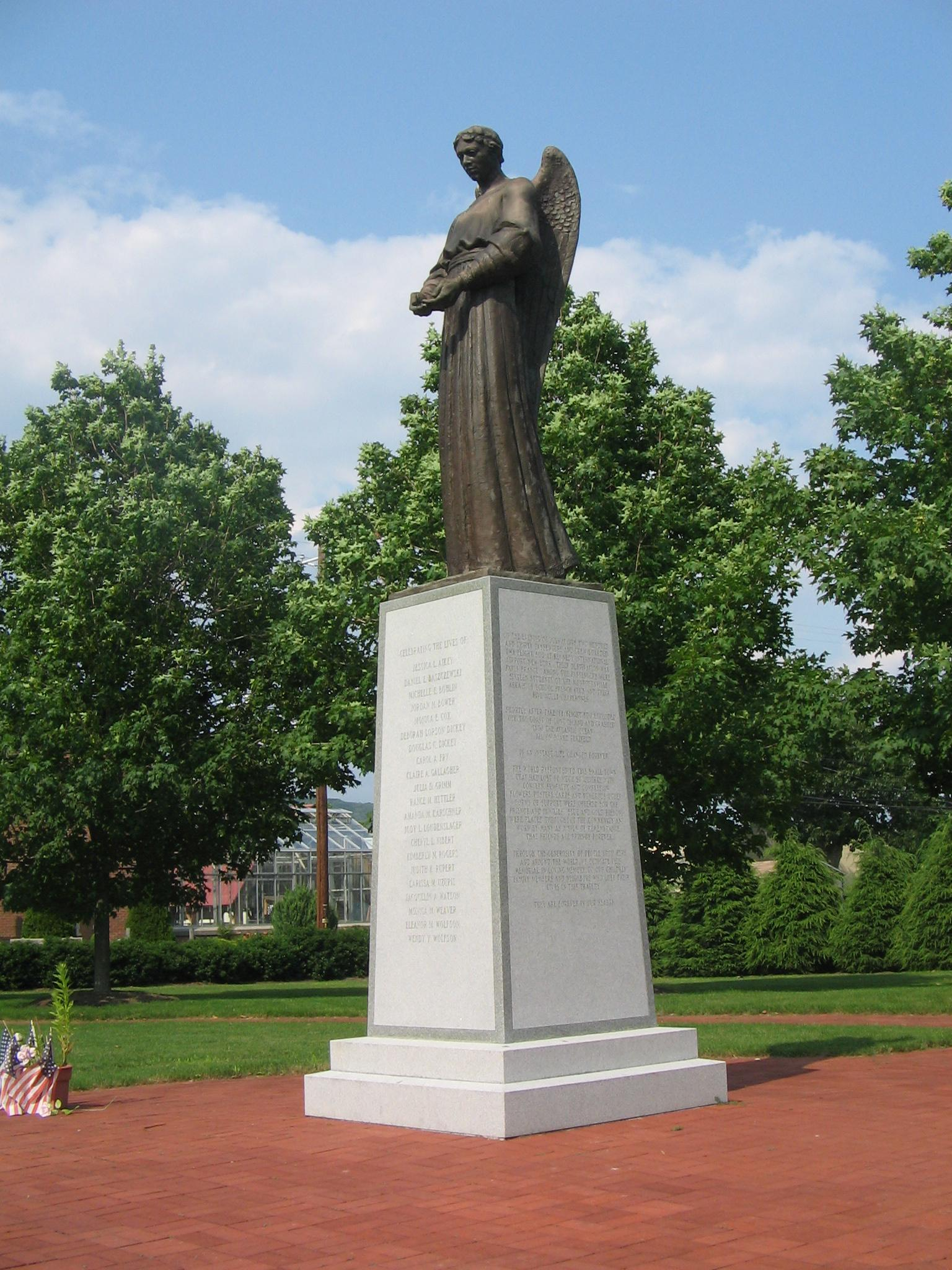 Memorial to 21 victims of TWA Flight 800 crash, located in Montoursville, Pennsylvania, USA